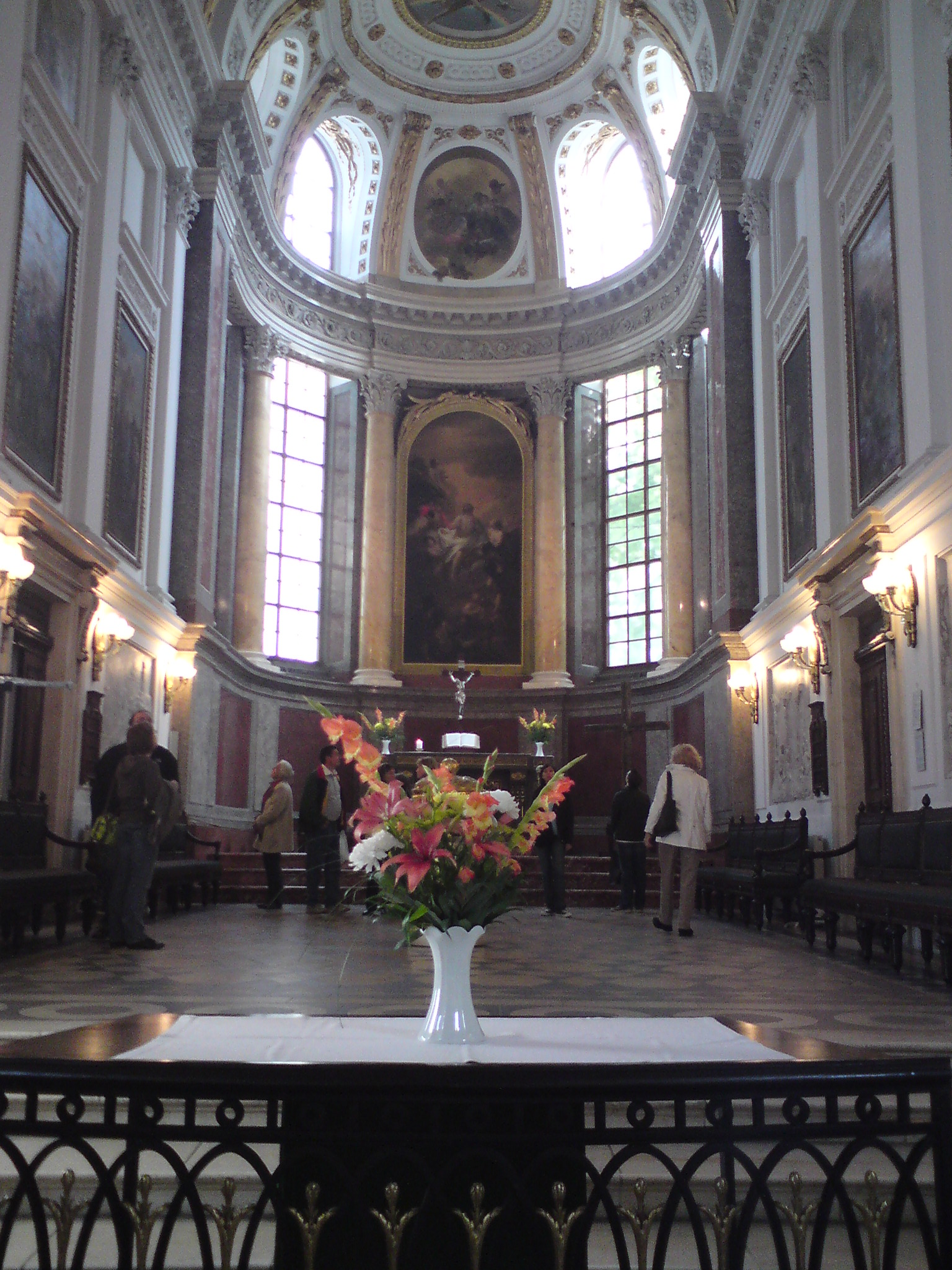 inside_nikolas_church_leipzig